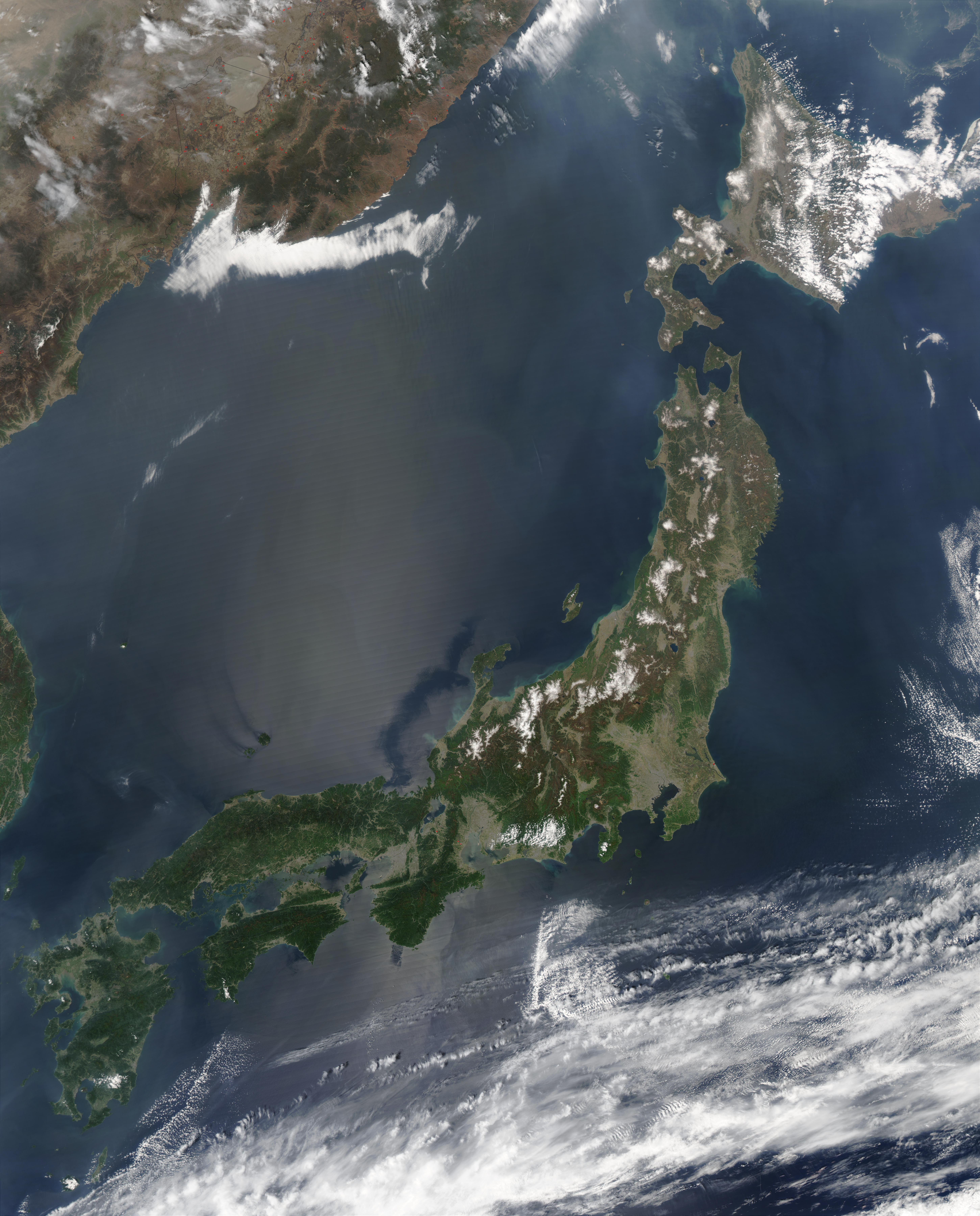 Satellite image of Japan in May 2003. The islands of Japan are shown clearly off the coast of North and South Korea, China, and Russia in this true-color image. Running down through the islands are a string of mountains that make up part of the Pacific â€œRing of Fire.â€ The Ring of Fire is a zone of frequent earthquakes and volcanic eruptions that stretches in a series of arcs from New Zealand, through Indonesia, up through the Philippines, Japan, the Kuril Islands and Kamchatka Peninsula (Russia), across the Pacific Ocean via the Aleutian Islands, and down the coast of the Americas. Seventy-five percent of the worldâ€™s volcanoes are in this ring, making it the most volcanically-active region on the planet. Also shown in this image are a number of fires, which are marked with red dots. A few fires were detected in Japan, China, and North Korea, but the majority were detected in Russiaâ€™s Primorskiy-Kray region. This true-color Aqua MODIS image was acquired on May 1, 2003.